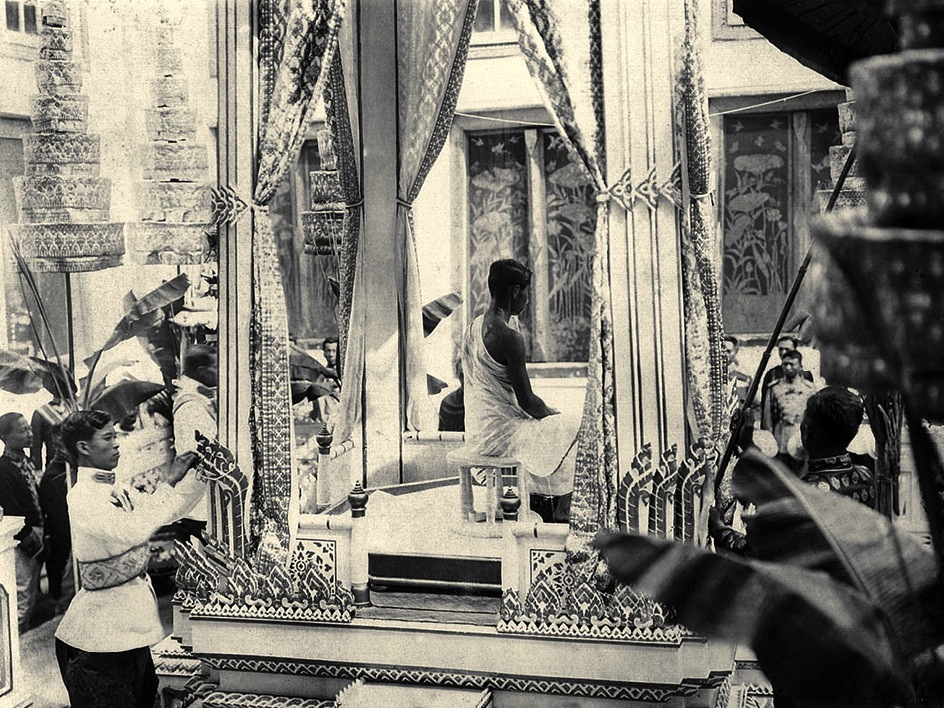 Purification bath of King Prajadhipok at coronation ceremony on 25 February 1926